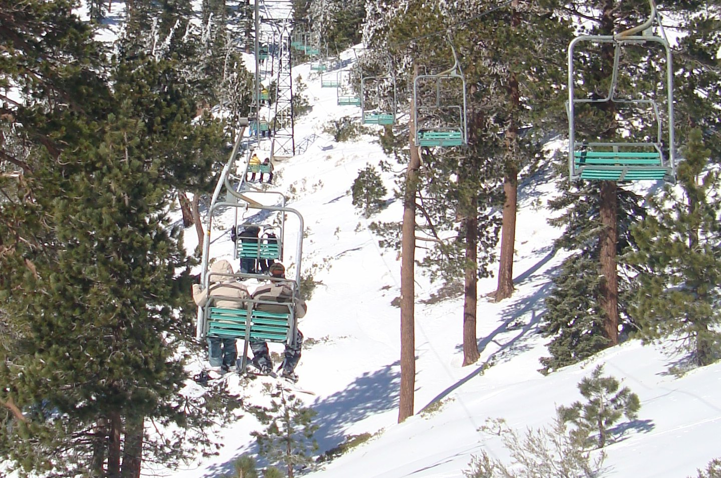 A view from a chairlift at Mount Baldy Ski Lifts. At Mount Baldy in the San Gabriel Mountains, Angeles National Forest, Southern California.